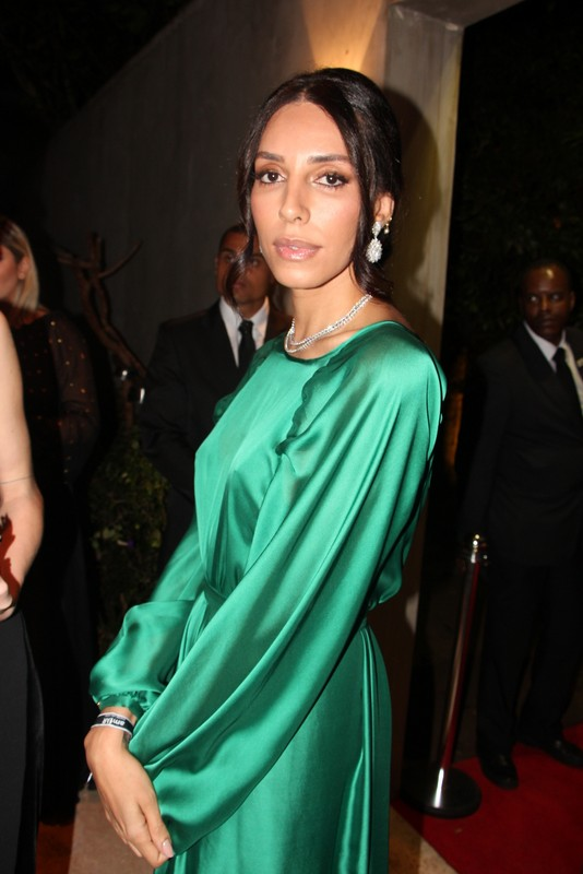 21 - Lea T